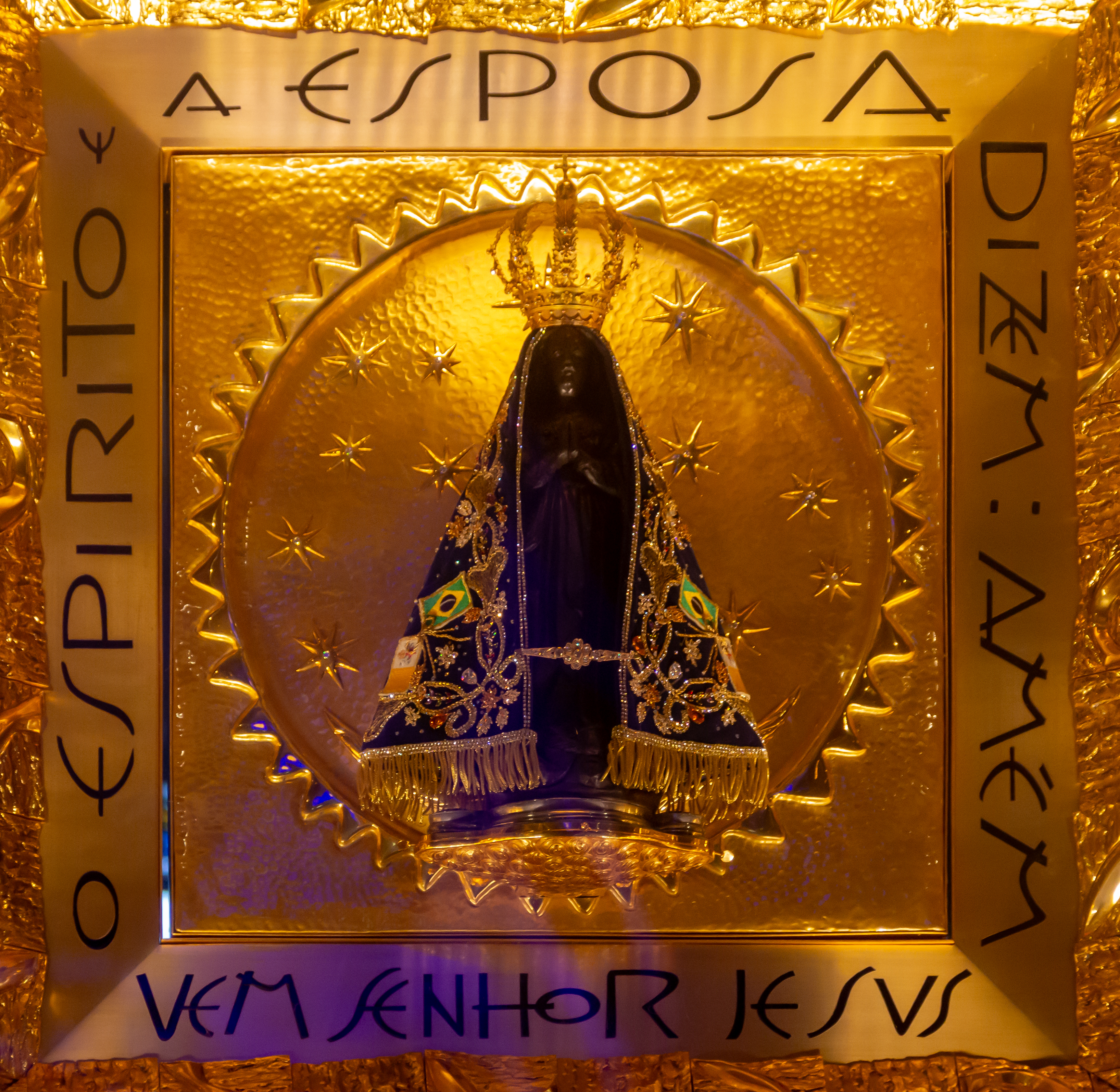 Basilica of the National Shrine of Our Lady of Aparecida, Sao Paulo, Brazil